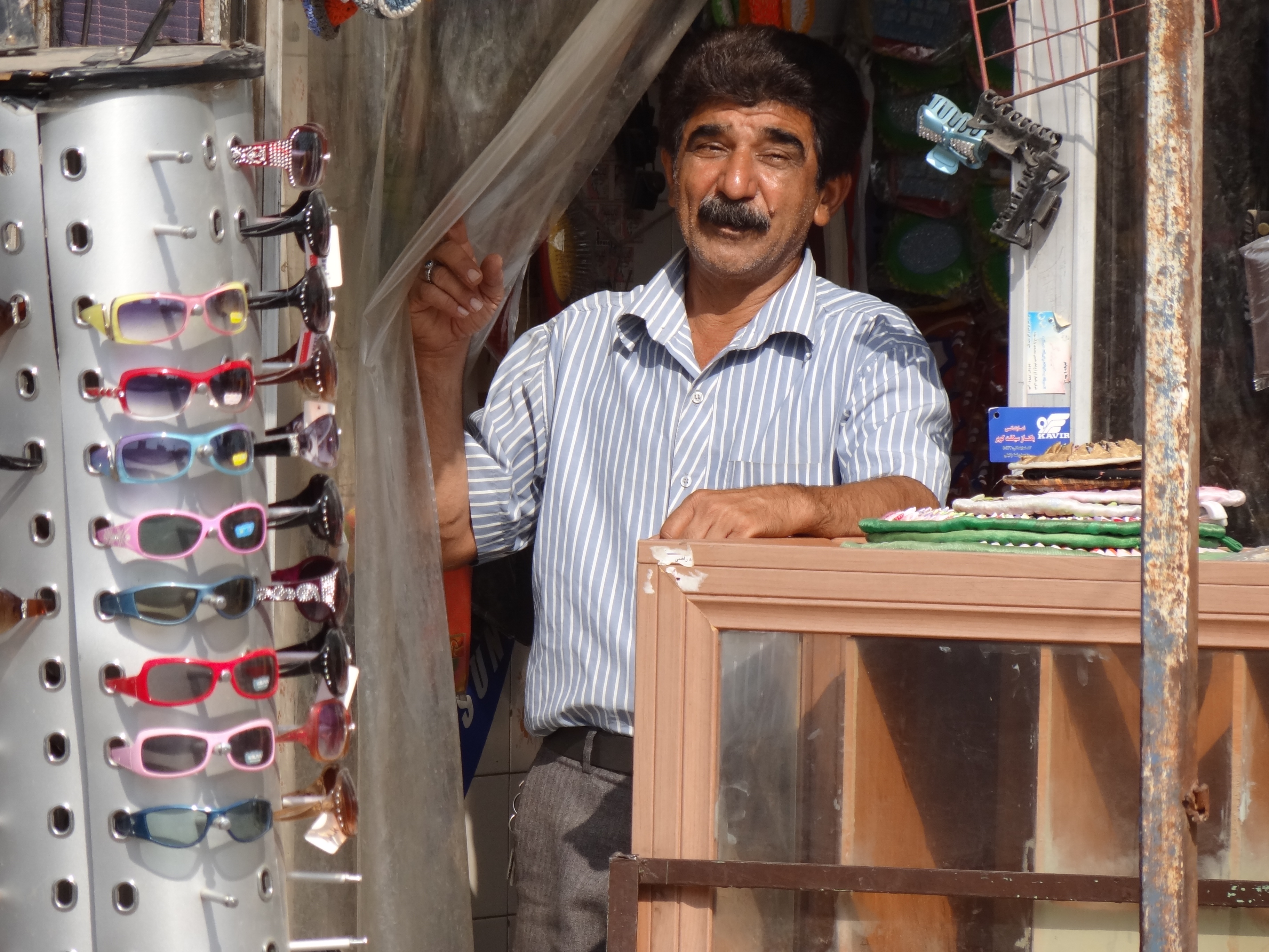 Shop Vendor - Shush - Southwestern Iran